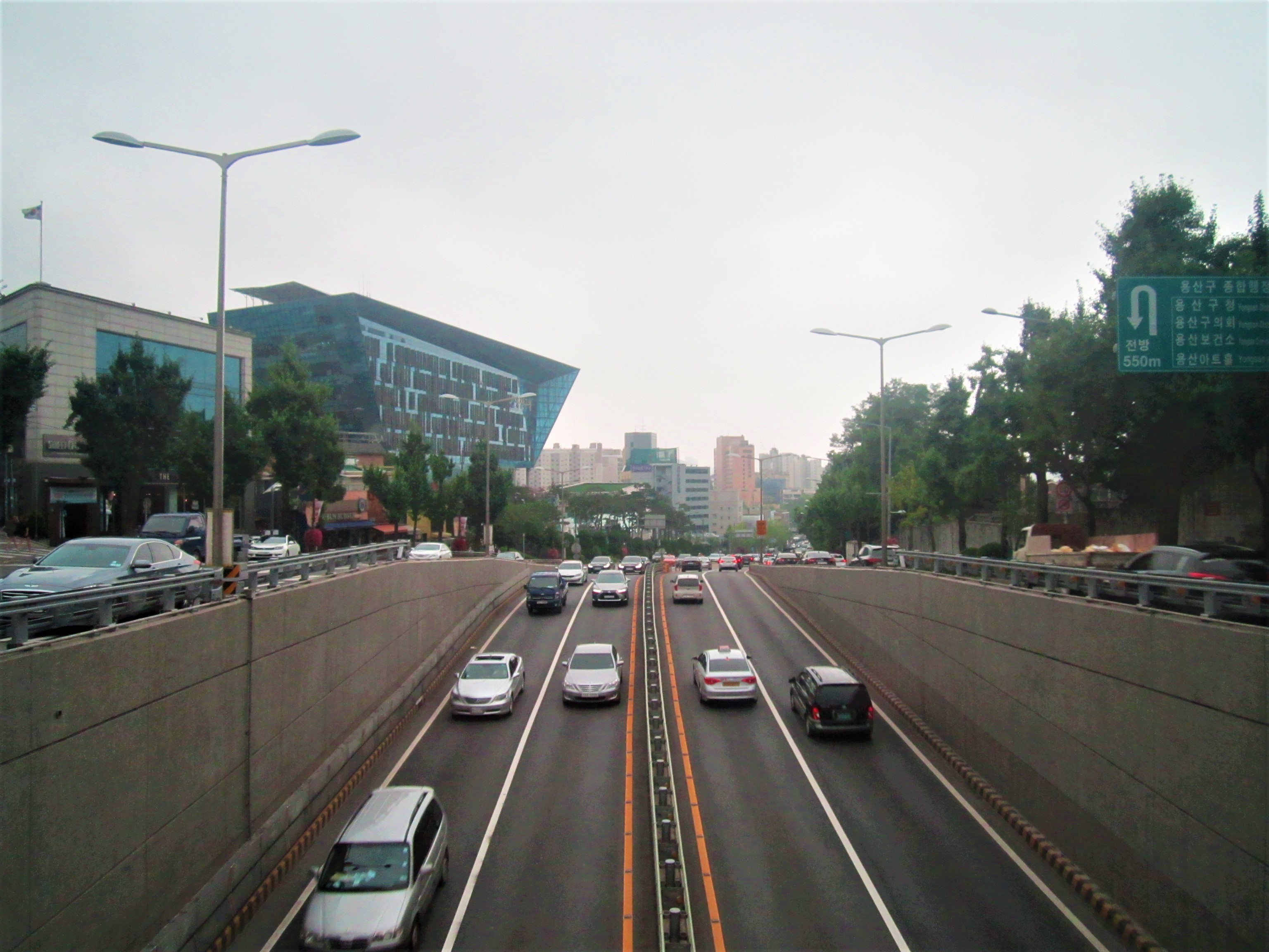 Itaewon Underpass, Yongsan-gu Office